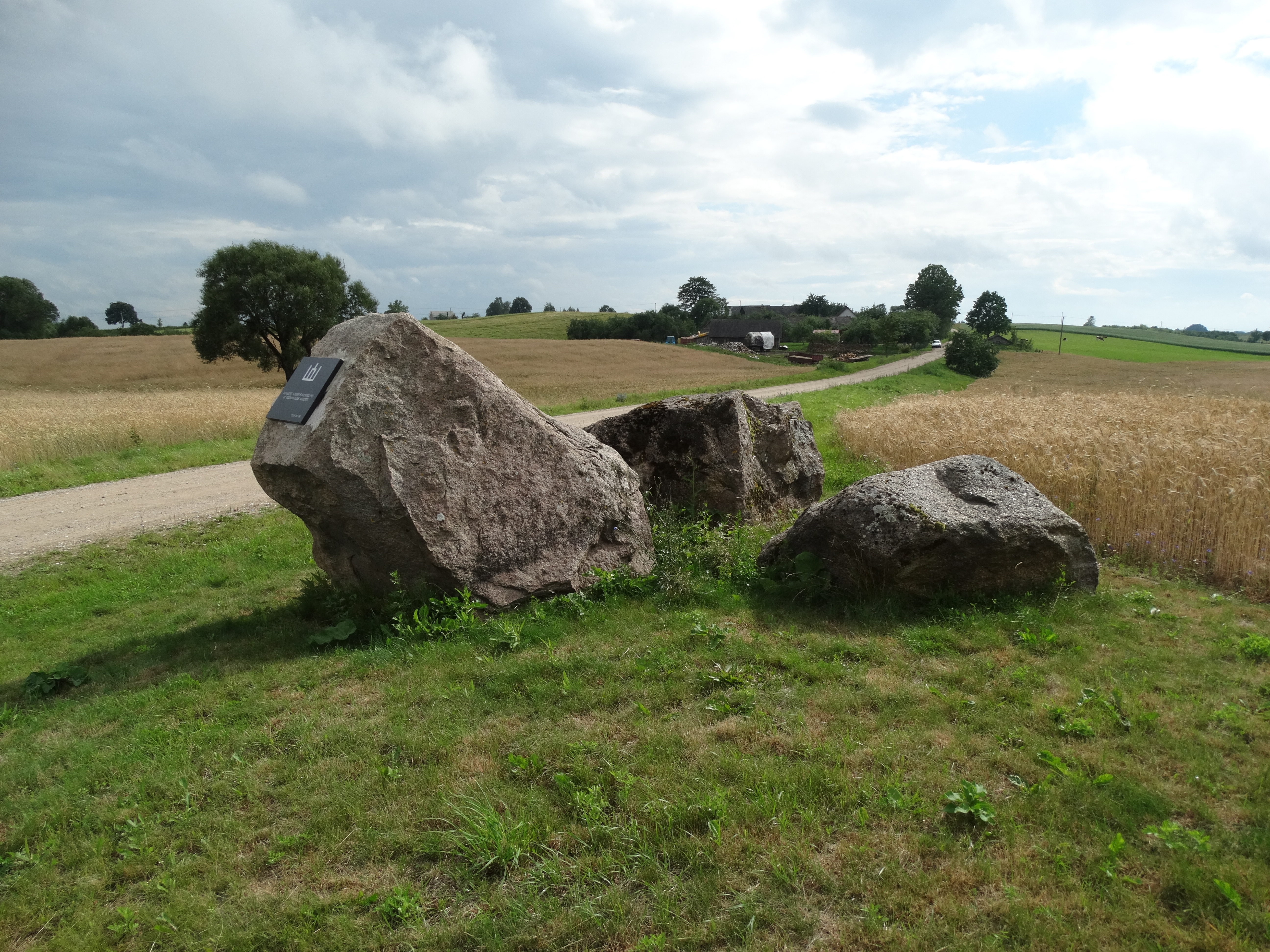 Stones in Kovaičiai, Kaišiadorys District, Lithuania